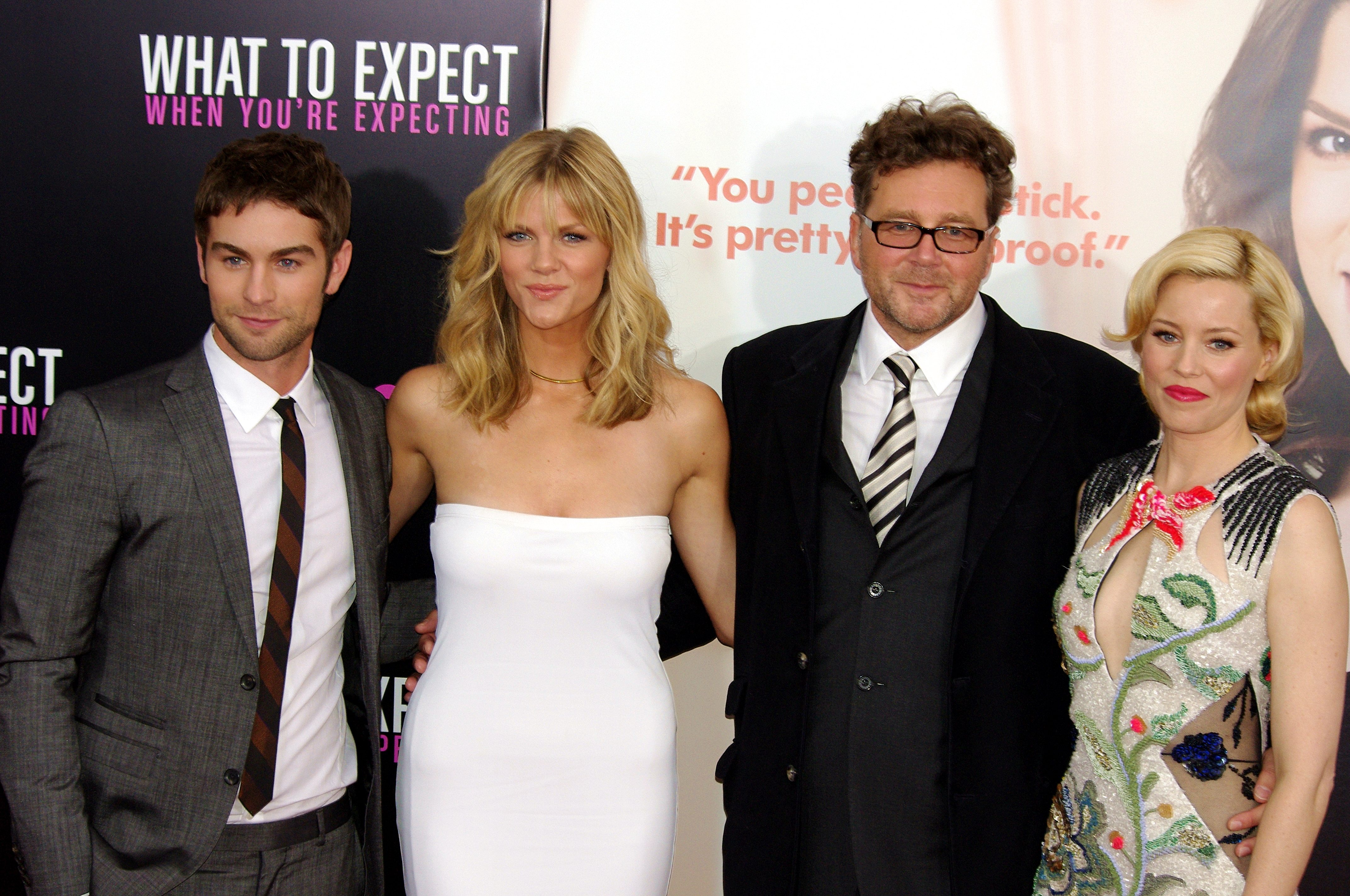 Chace Crawford, Brooklyn Decker, director Kirk Jones and Elizabeth Banks at the 2012 premiere of What to Expect When You're Expecting in New York